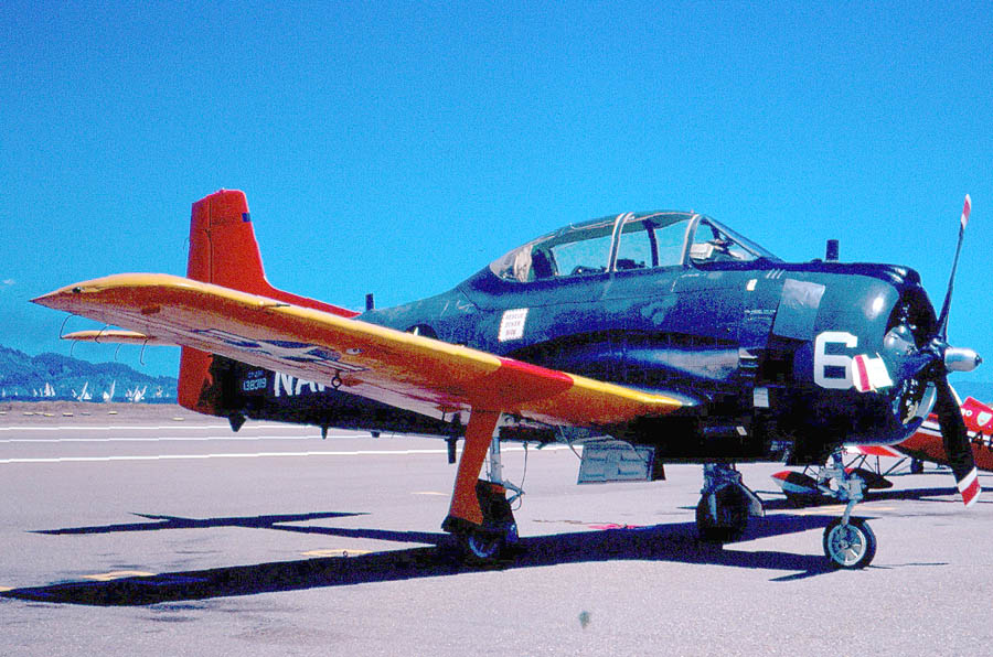 At Crissy Field, San Francisco, in 1971.